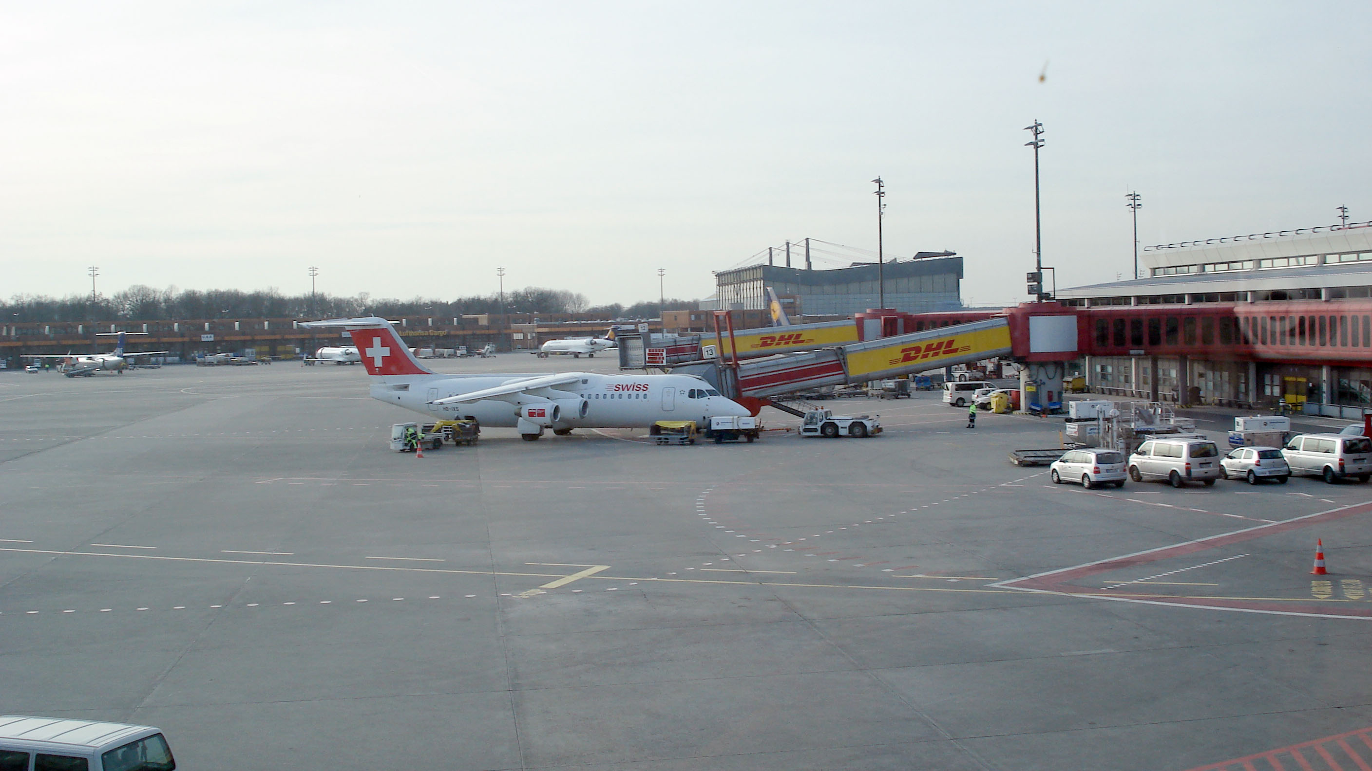 BAe Avro 146-RJ100 of Swiss